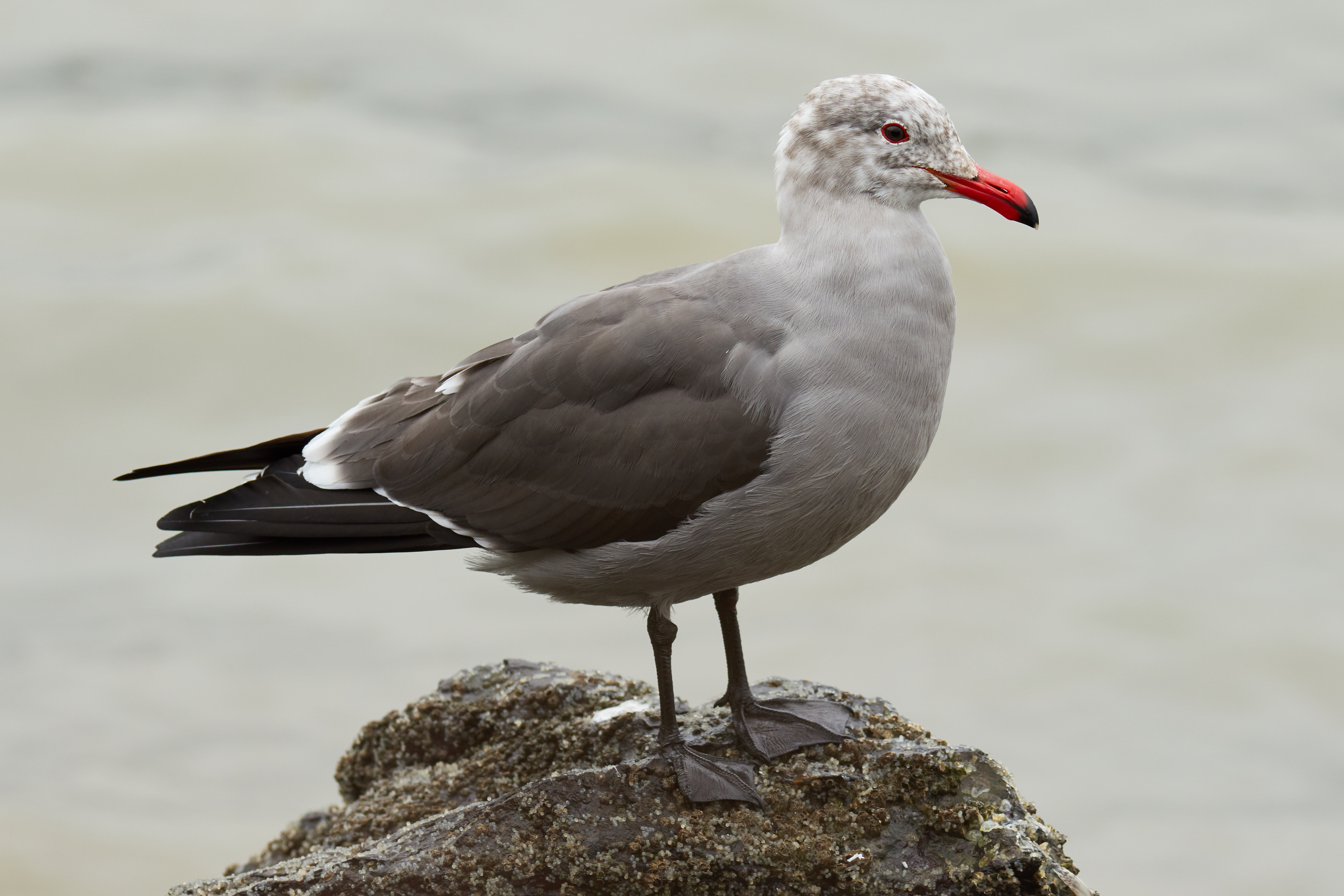 Heermann’s gull (Larus heermanni), adult nonbreeding, Richardson Bay, Marin County, California.